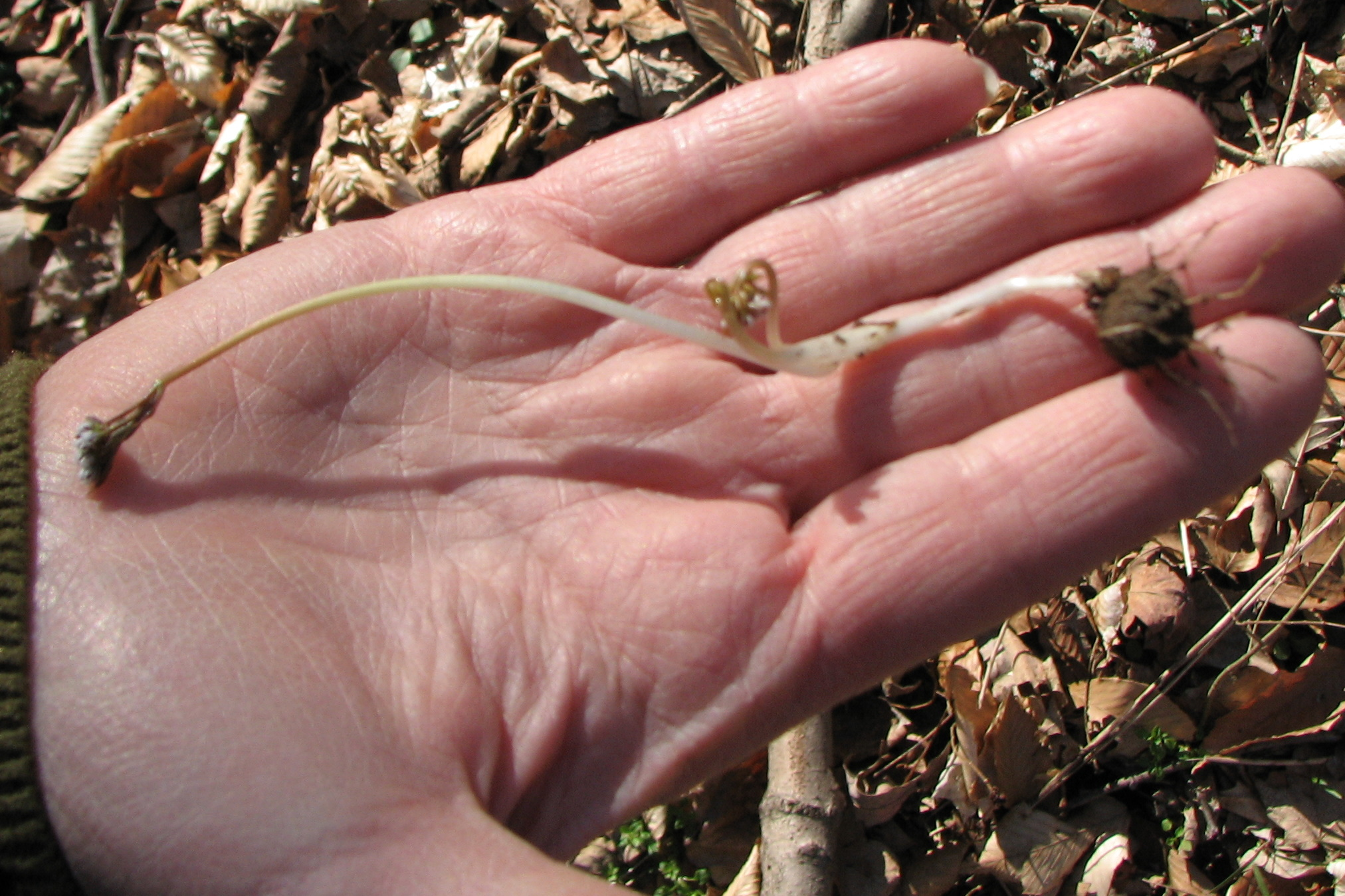 A photograph of the entire plant of Erigenia bulbosa (Harbinger of spring)in family Apiaceae. Notice the large spherical bulb.